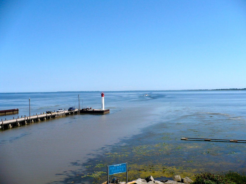 The Harbour on a good day. Blue, blue blue...